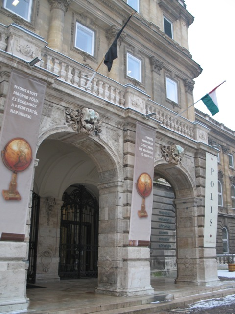 National Széchényi Library